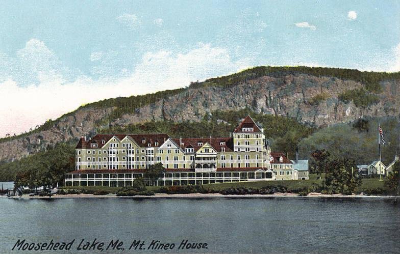 The Mount Kineo House, Moosehead Lake, Maine. Third to bear the name, this hotel opened in 1884 after its predecessor burned in 1882. It was designed by Boston architect Arthur H. Vinal. While being demolished in the late 1930s, it too would burn.